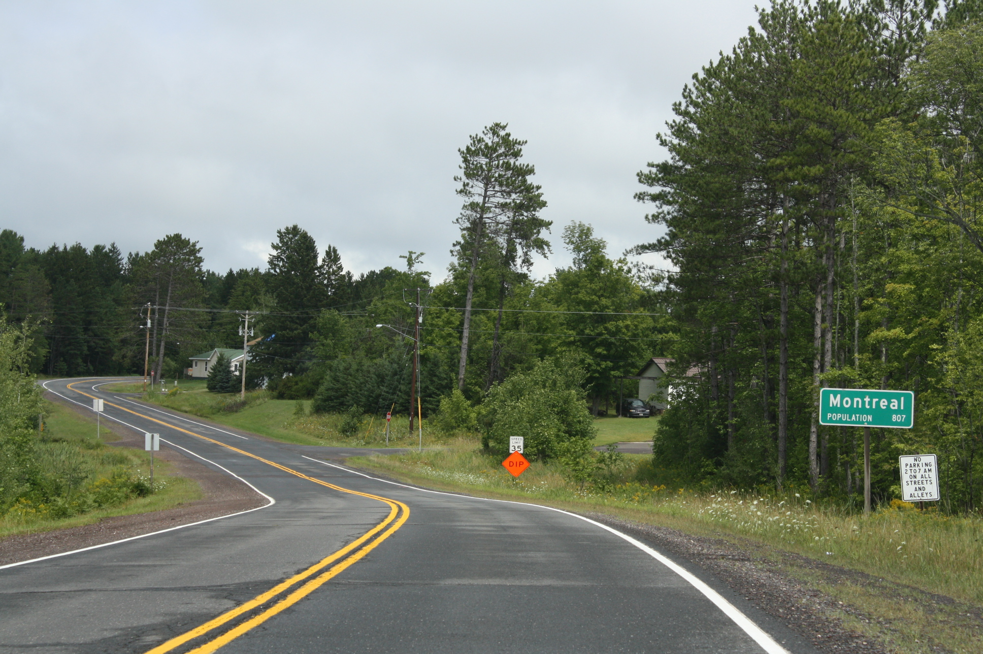 The sign for Montreal, Wisconsin on WIS77.